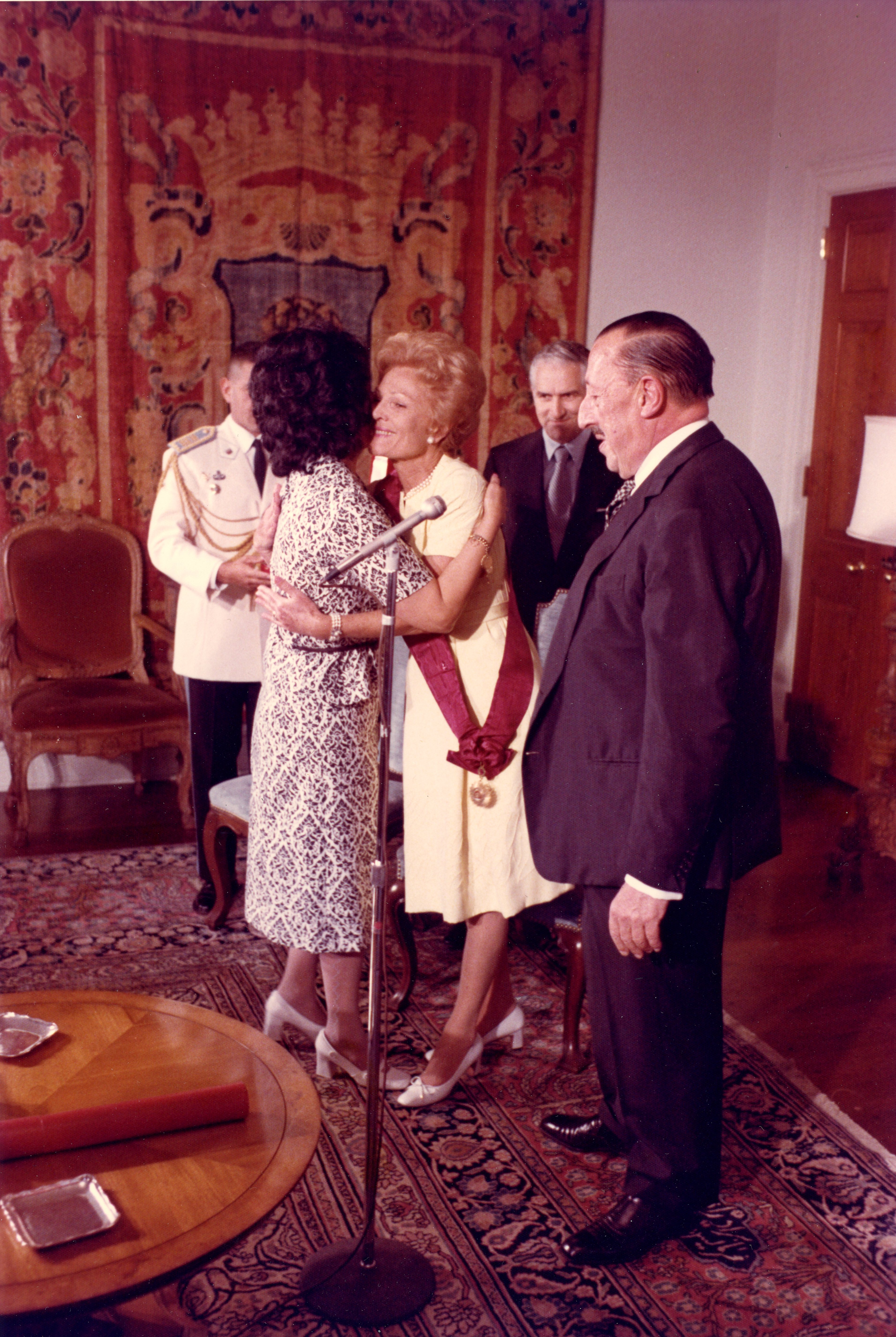 First Lady Pat Nixon is awarded the Grand Cross of the Order of the Sun from the government of Peru. At left is Peruvian First Lady Consuelo Velasco; at right is the Peruvian Ambassador to the United States. 1972. WHPO C6712-07A